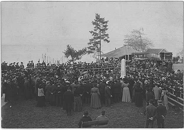 Handwritten on verso: Alki Monument . Peiser 10081 Subjects (LCTGM): Dedications--Washington (State)--Seattle; Monuments & memorials--Washington (State)--Seattle; Crowds--Washington (State)--Seattle